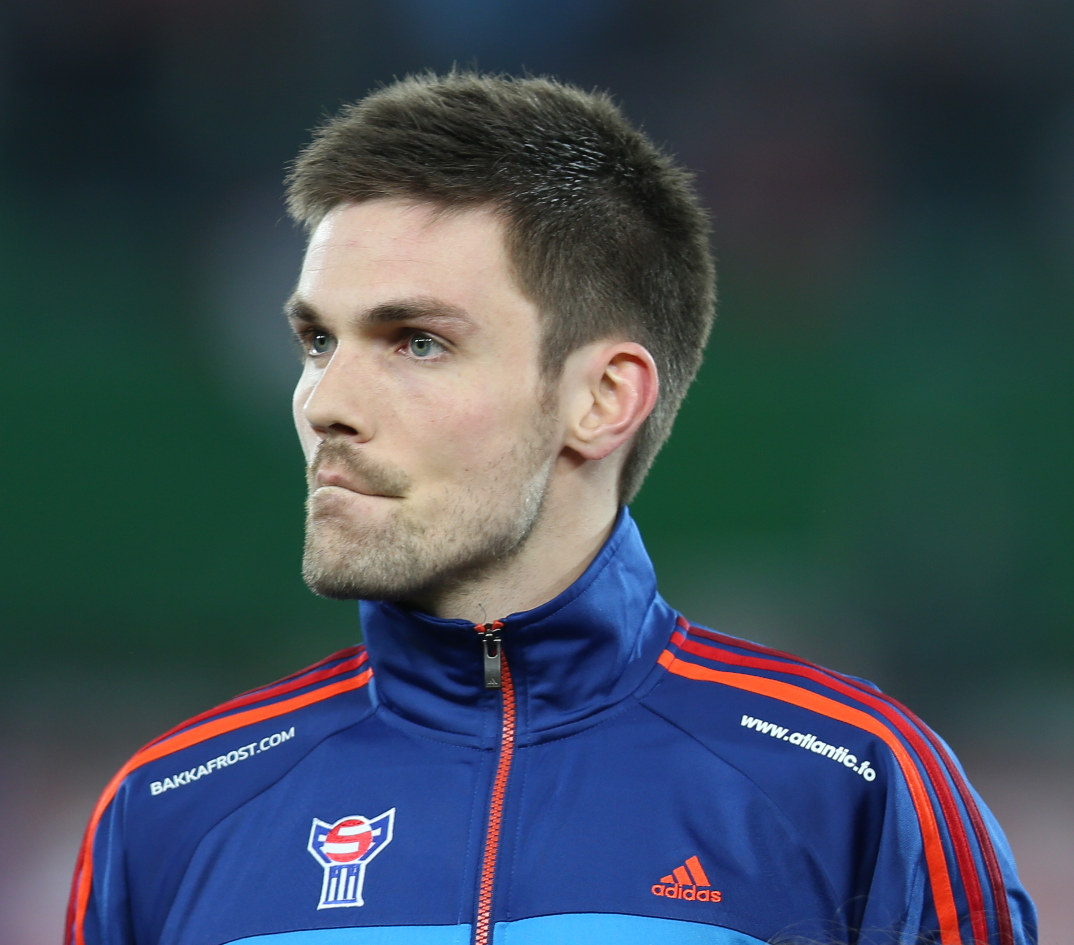 2014 FIFA World Cup qualification (UEFA), Group C: Austrian national football team vs. Faroer Islands national football team (6:0) at 22. March 2013 in the Ernst-Happel-Stadion in Vienna. Here: Jónas Þór Næs, defender of the Faroe Islands.